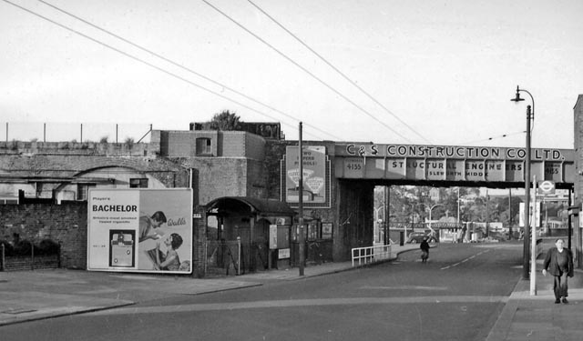 Brentford GWR Station (site). View eastward on Brentford High St. The station, on a branch from Southall to Brenford Docks, had been on the left. The passenger station and the service from Southall were closed on 4/5/42, but although Brentford Dock was closed in 1964, goods trains ran to Brentford Town Goods until 7/12/70.